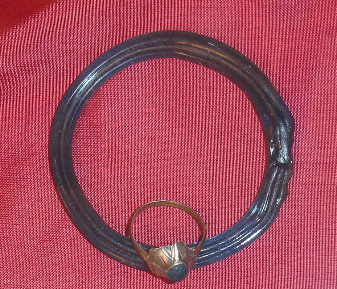 ornaments found in the foothills Słonne Mountains in Trepcza on Sanem by archaeologist Jerzego Ginalskiego